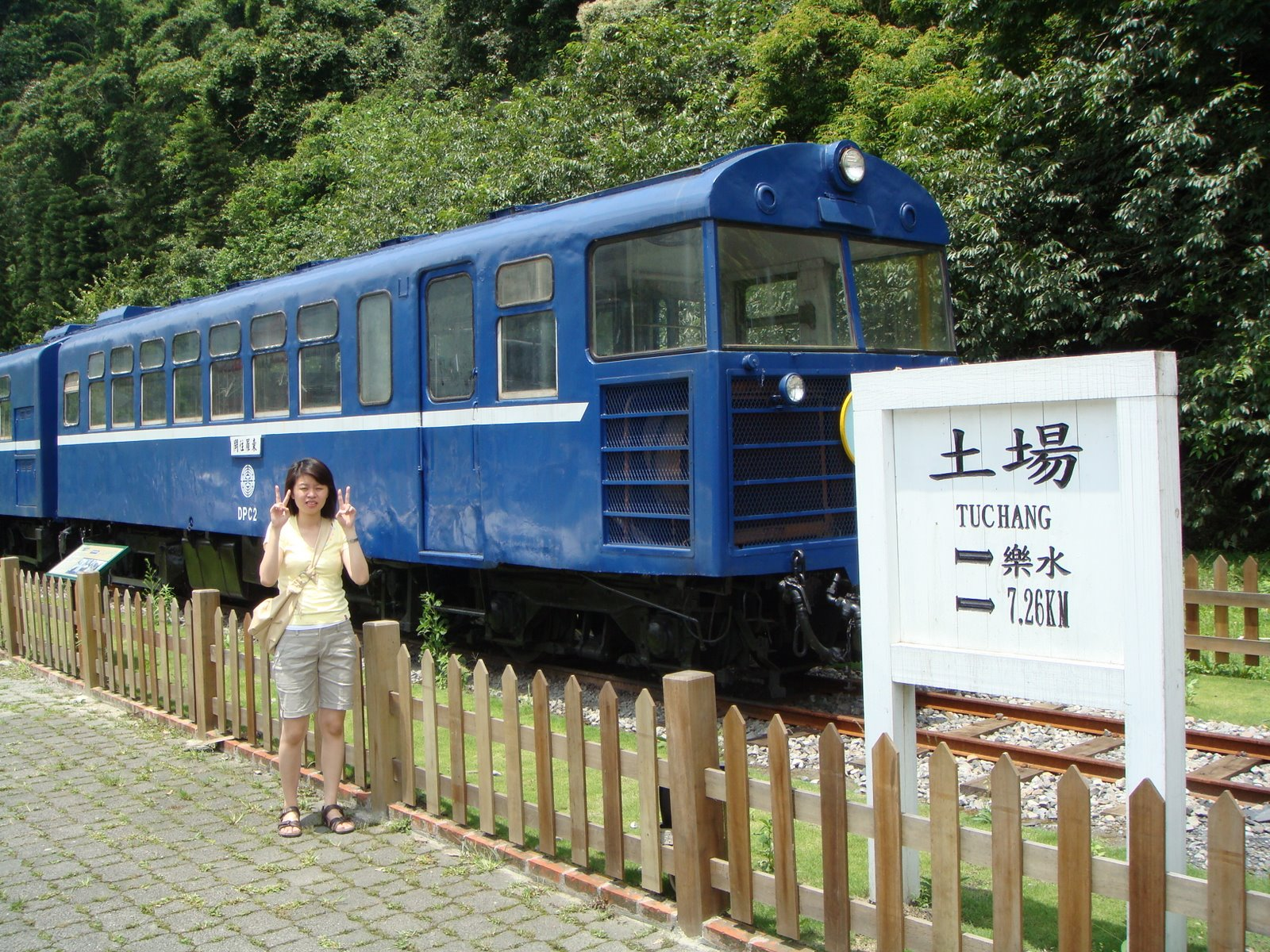 Luodong Forest Railway Diesel multiple unit DPC